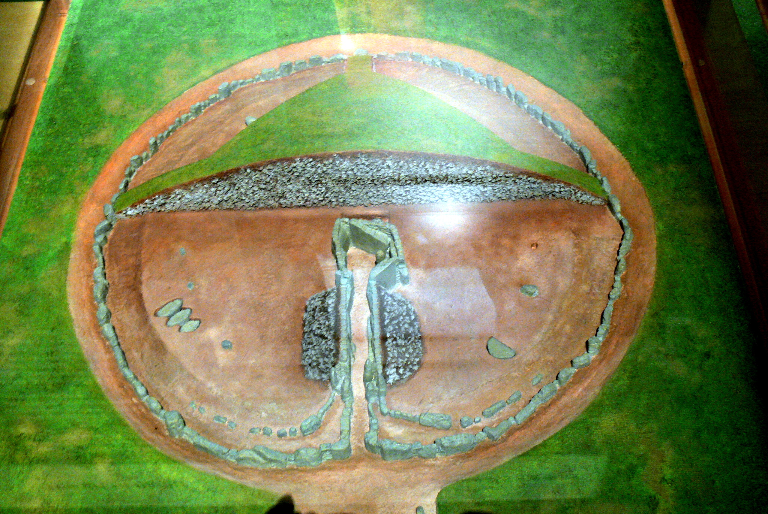 National Museum of Wales ( Cardiff ). Modell of Bryn Celli Ddu tomb, Anglesey ( 3000 BC ).